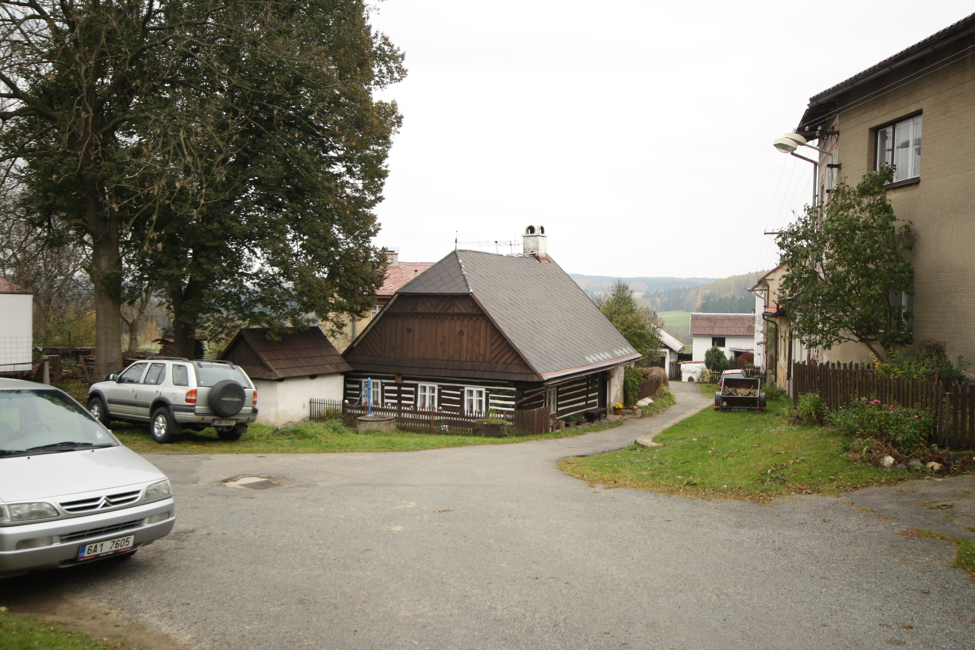 Down side of Dřevíkov, Chrudim District.